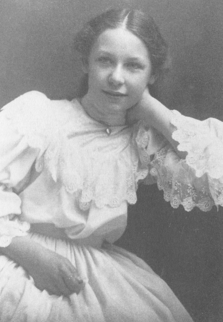 Hazel Rutherford